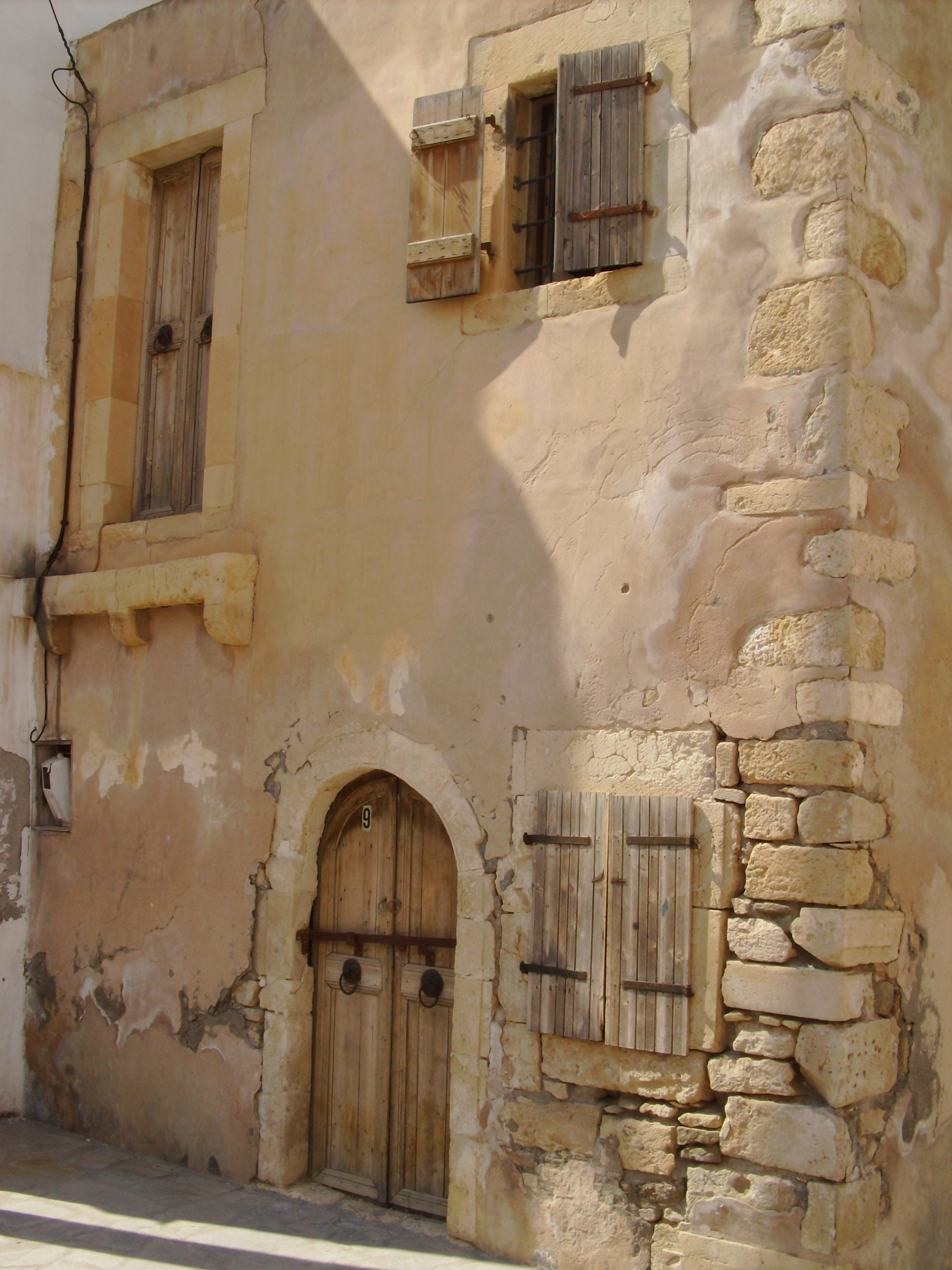 Napoleon house in Ierapetra